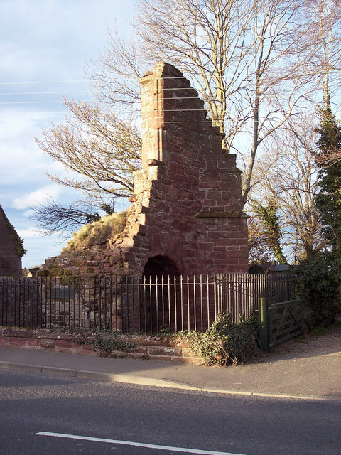 All that remains of Coupar Angus Abbey is a fragment of a supposed gatehouse.